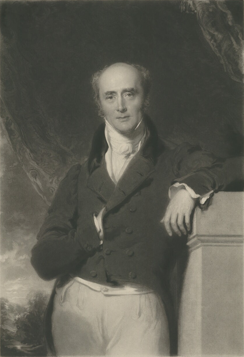 Portrait of Charles Grey, 2nd Earl Grey (1764-1845)